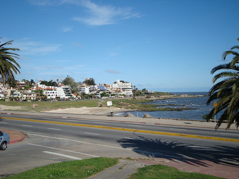 View of Punta Gorda from Rambla O'Higgins, Montevideo, Uruguay. Also seen is the beach Playa de los Ingleses.